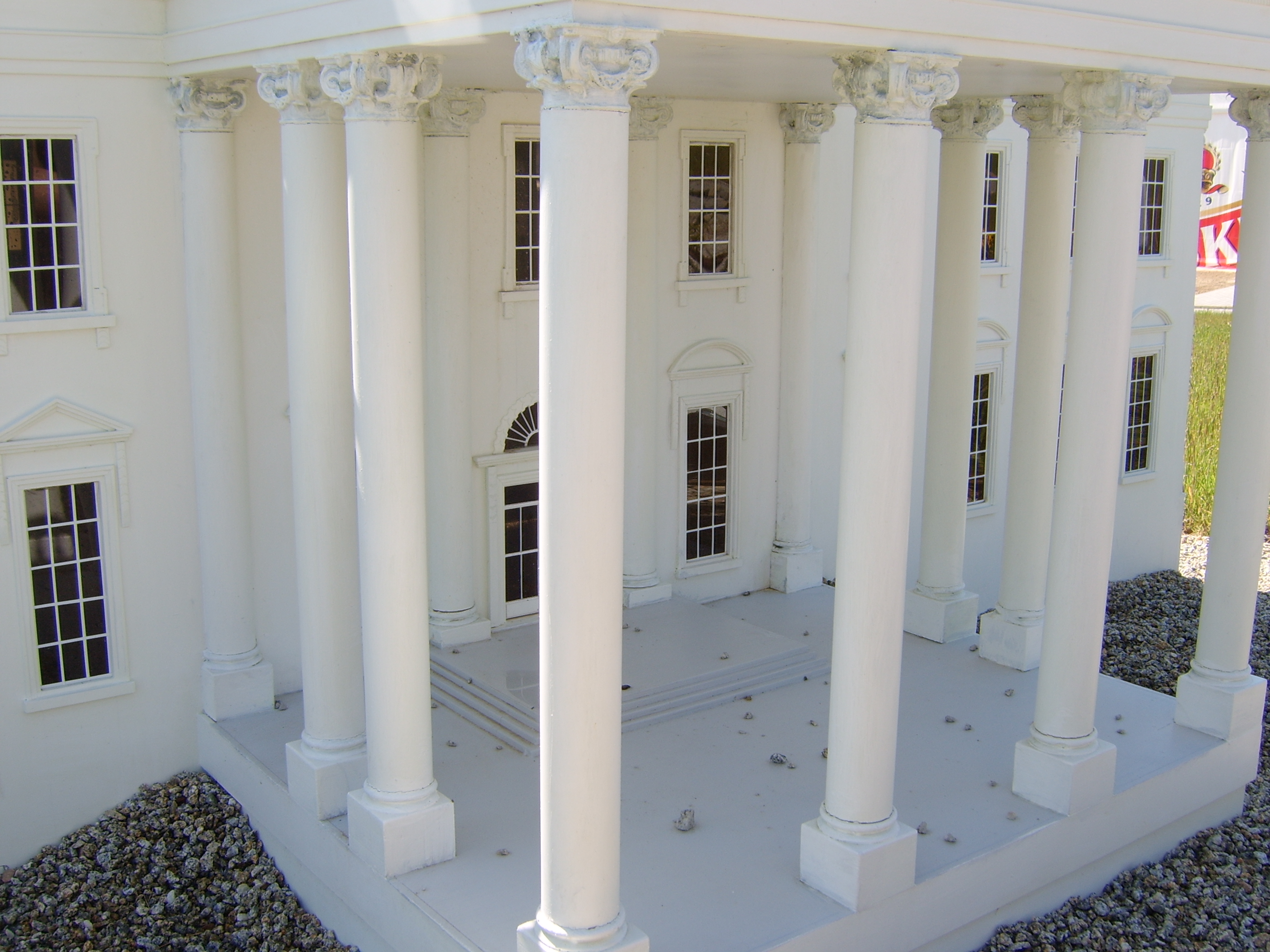 The White House in the Miniature Park „The World of Dream" in Inwałd